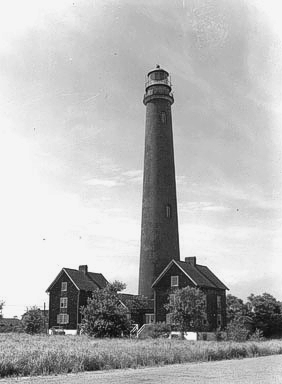 Shinnecock (Ponquogue) Lighthouse, NY built 1858, demolished 1948